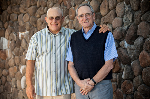 Daniel Baron, Winemaker of Silver Oak and Twomey Cellars with French winemaker Jean-Claude Berrouet.